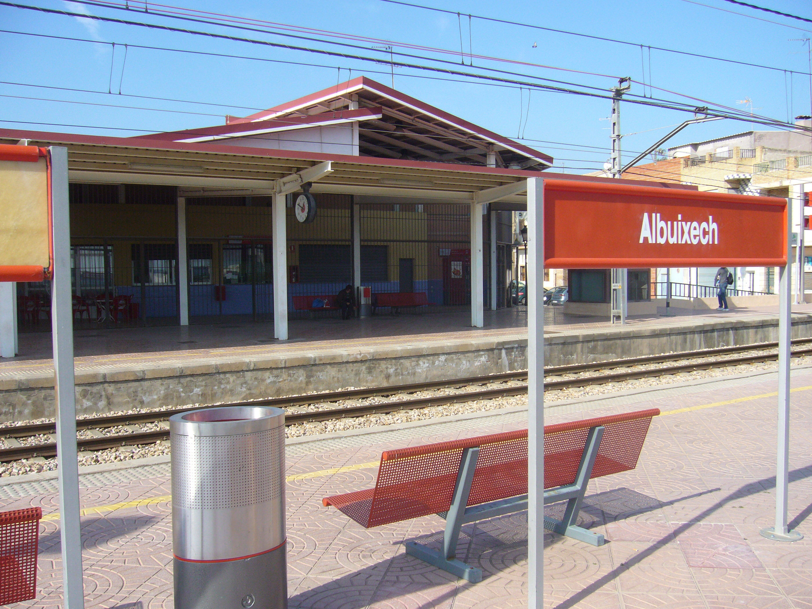 Albuixec rail station